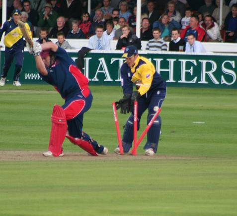 A Somerset CCC batsman is bowled by a Gloucestershire CCC bowler at Taunton on June 27, 2007